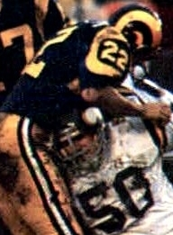 Minnesota Vikings linebacker Jeff Siemon (center) tackling Los Angeles Rams running back John Cappelletti (left) in the 1977 NFC Divisional Playoff Game on December 26, 1977.